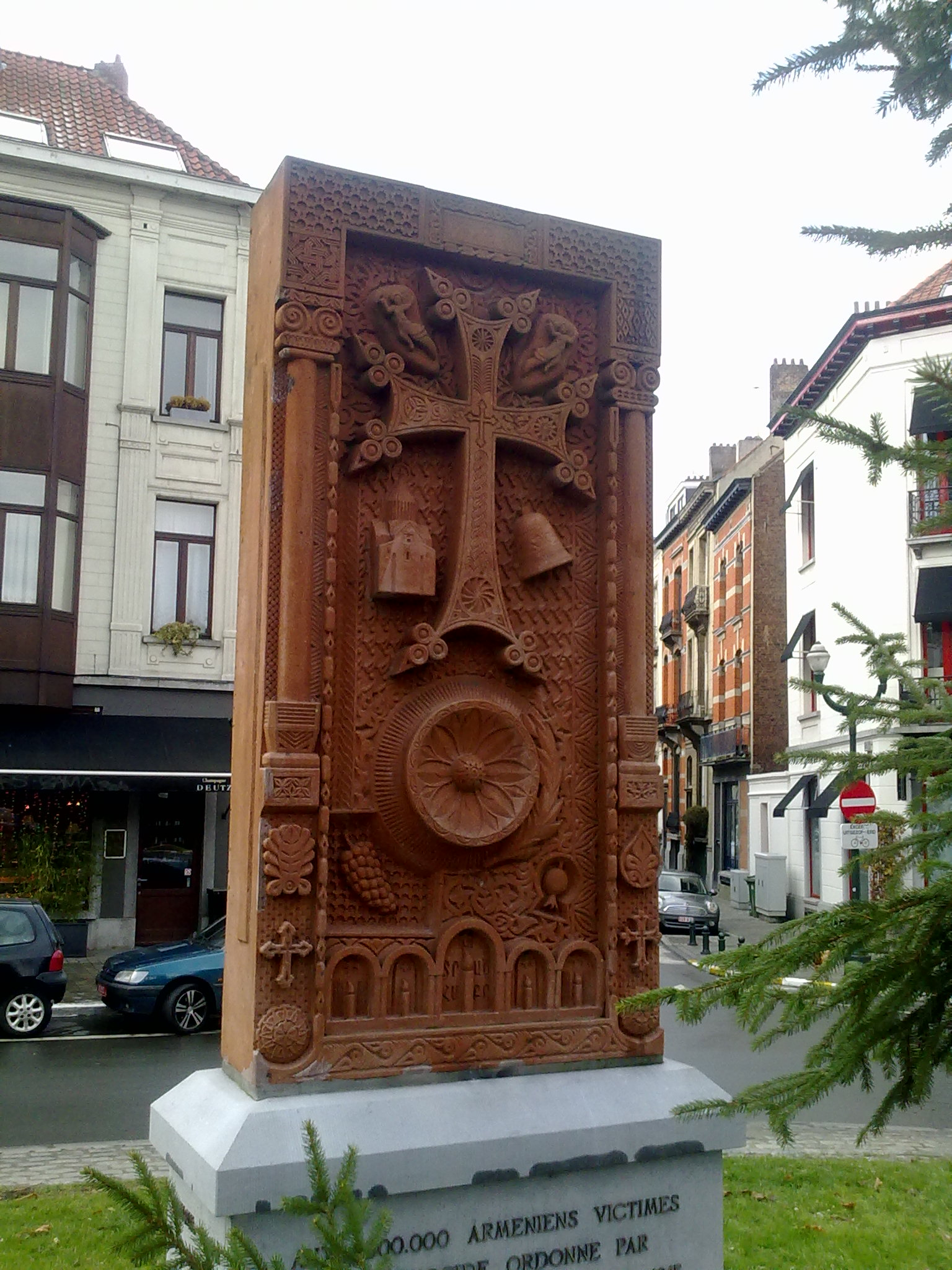 Monument eretcted to commemorate the Armenian genocide. Washington street, Brussels.